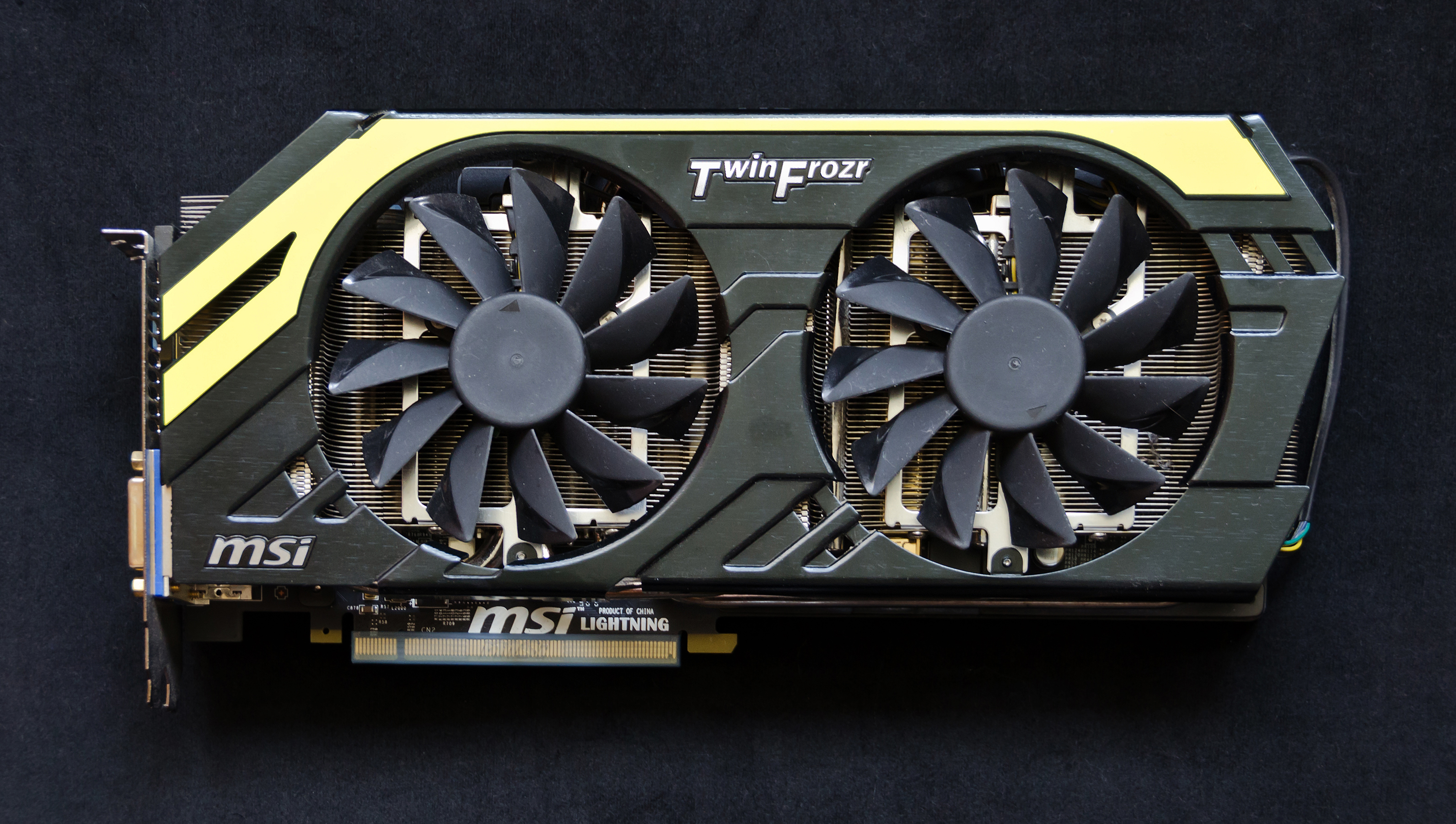 MSI GTX 770 Lightning video card.